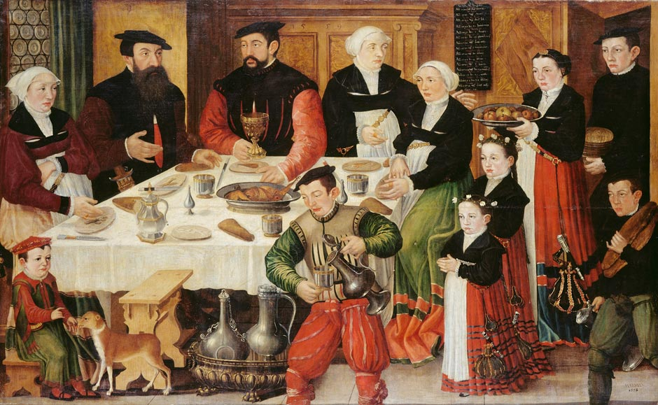 Hans Rudolf Faesch and his family, painted by Hans Hug Kluser in 1559